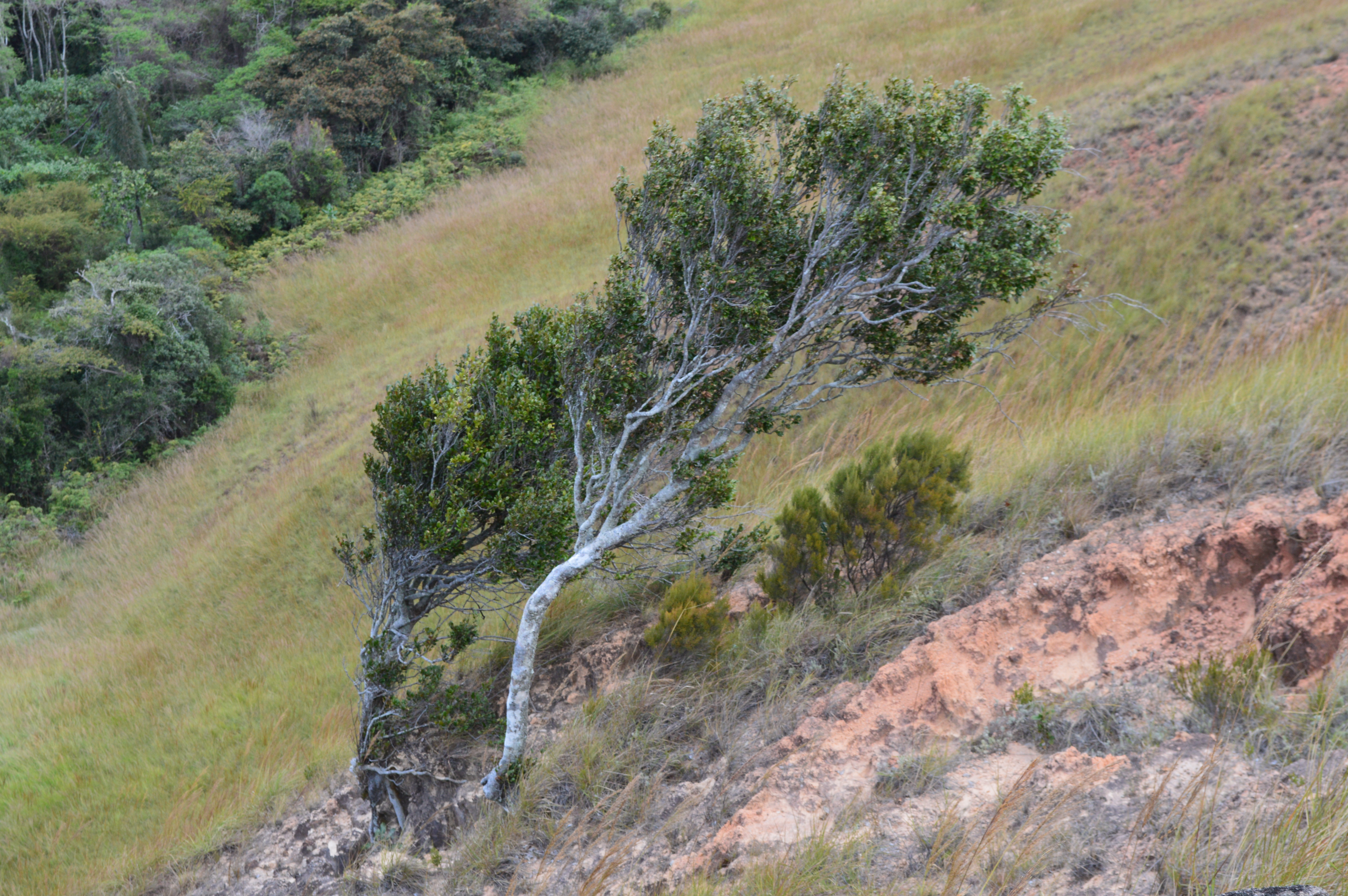 Adult Schizolaena tampoketsana, Ankafobe, Madagascar